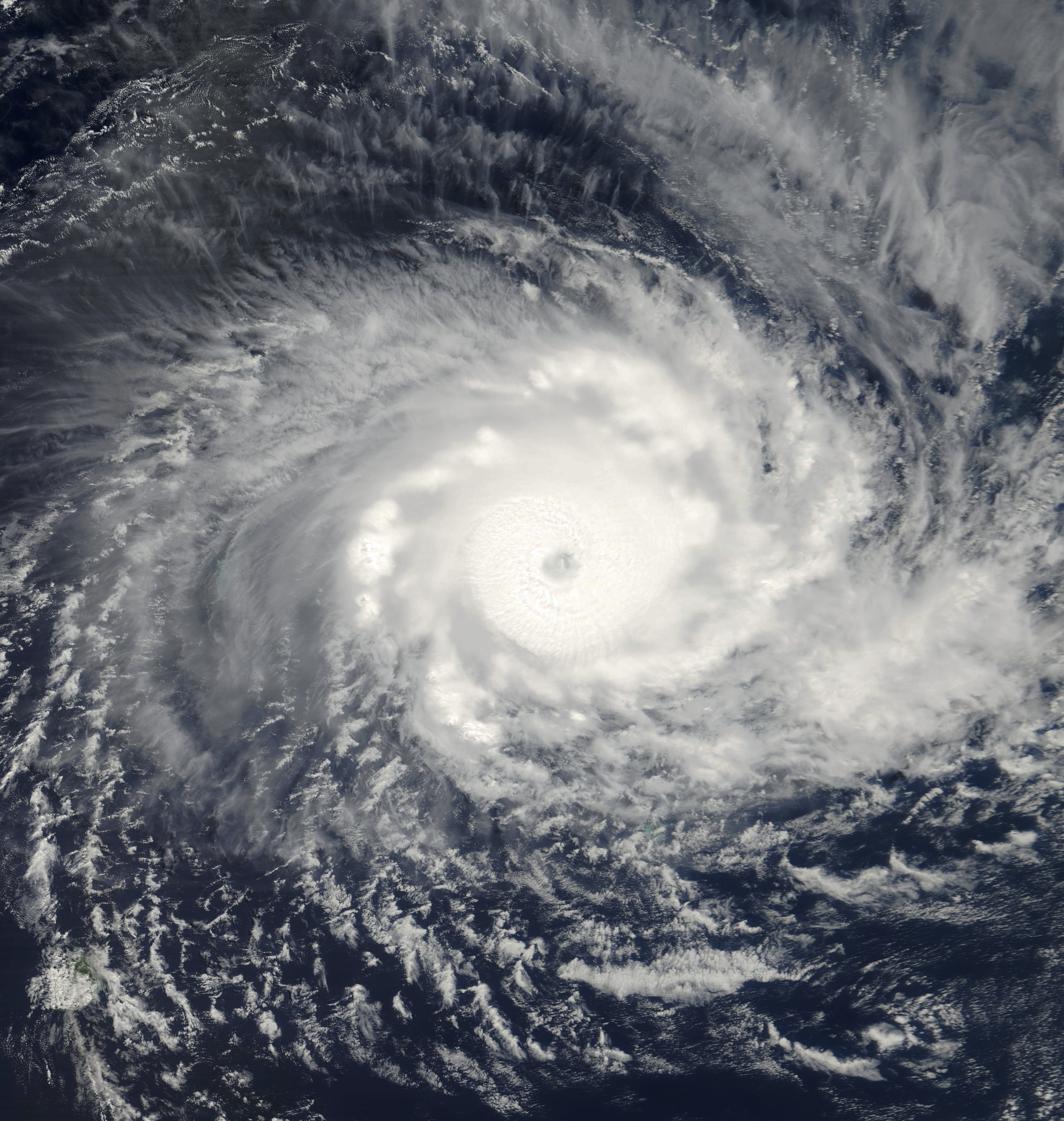 Cyclone Hudah shortly before peak intensity on March 31